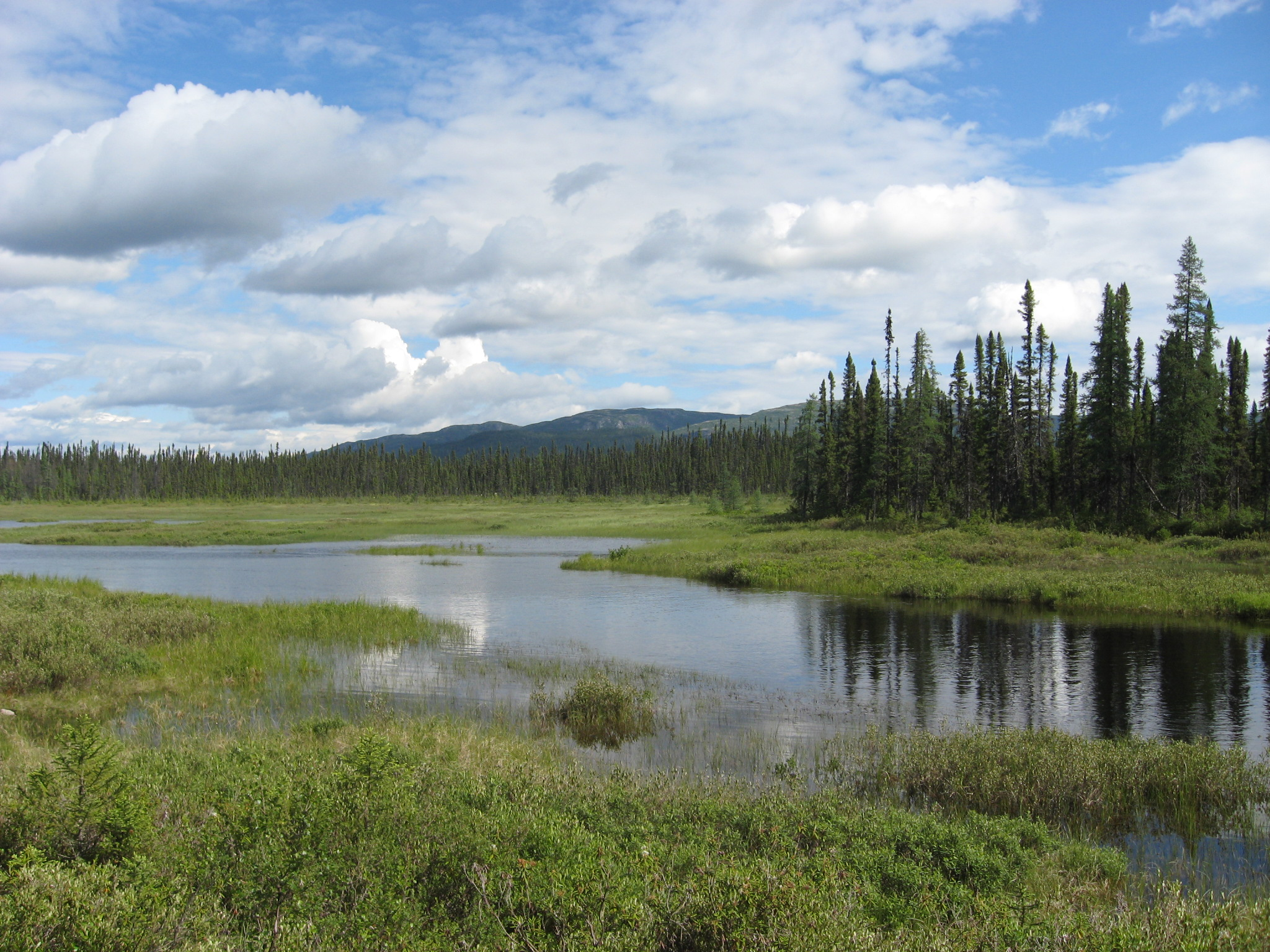 Typical view of marshes and boreal forest on René-Levasseur island, Manicouagan, Québec